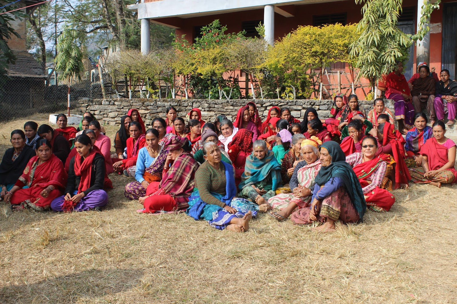 Inter-action Programme at Rainas Municipality. नेपाली: राईनास नगरपालिका भएको अन्तर्क्रियात्मक कार्यक्रम